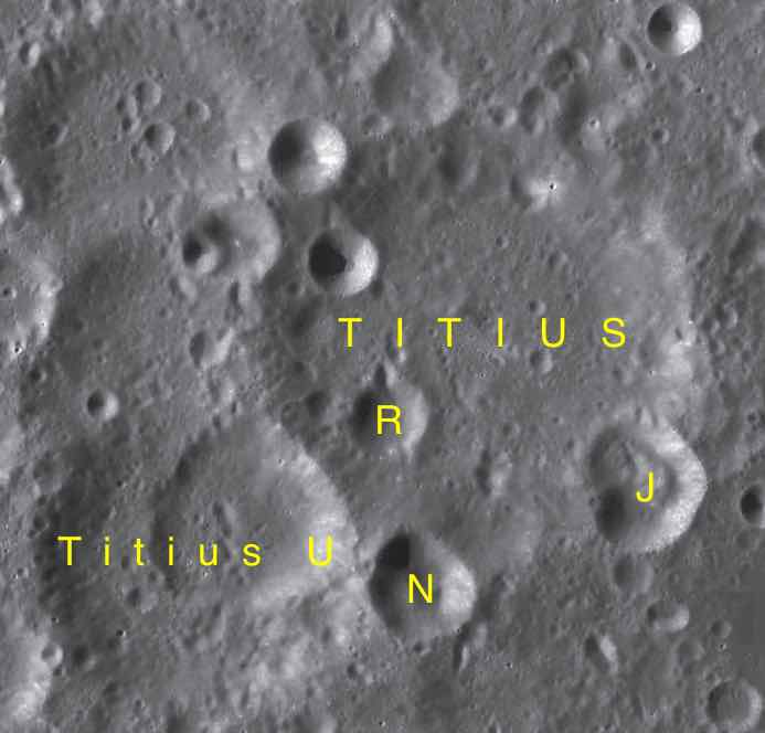 Part of the chart LAC-100 used for the presentation